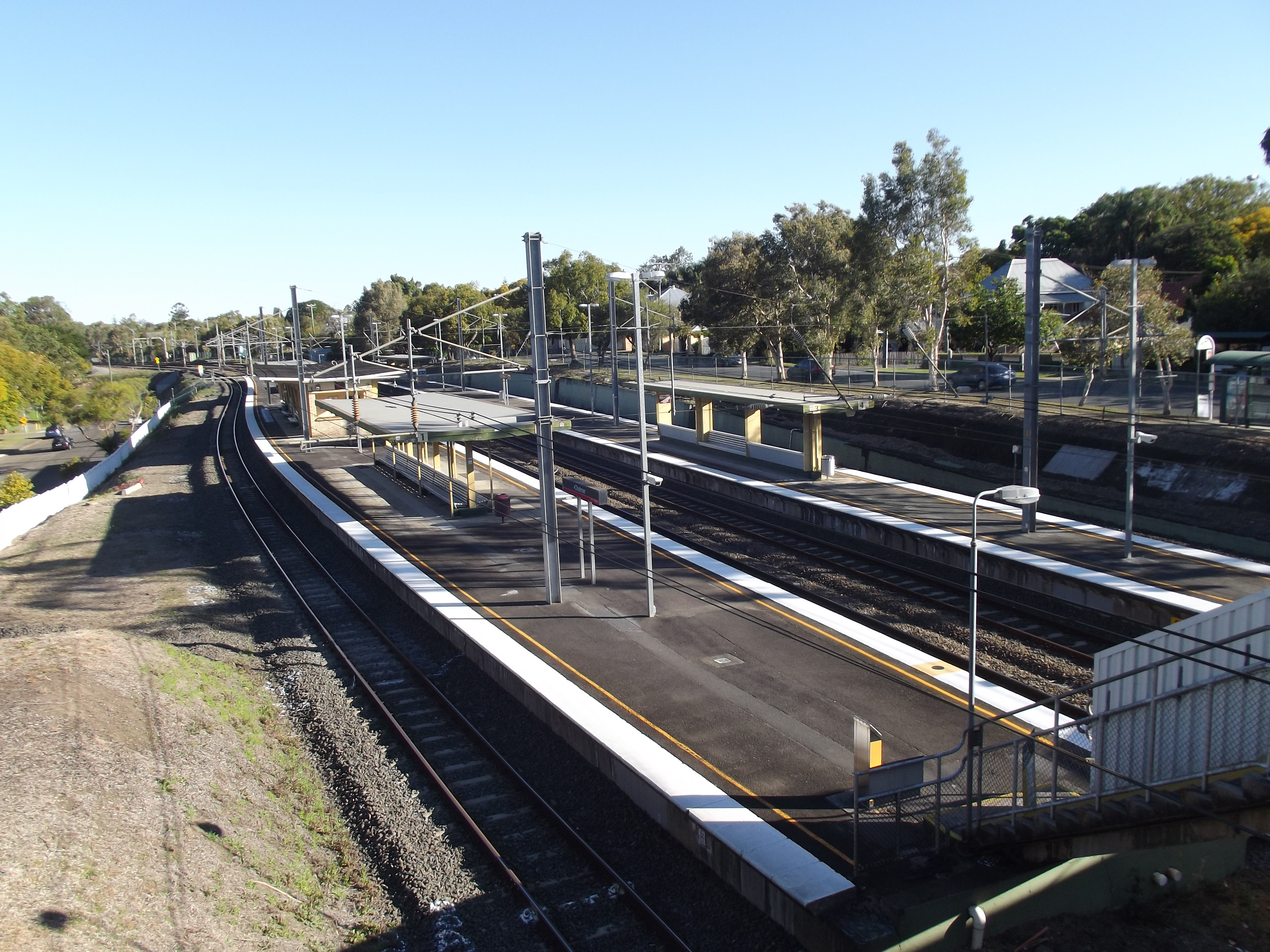 Chelmer station, on the Richlands/Ipswich line.